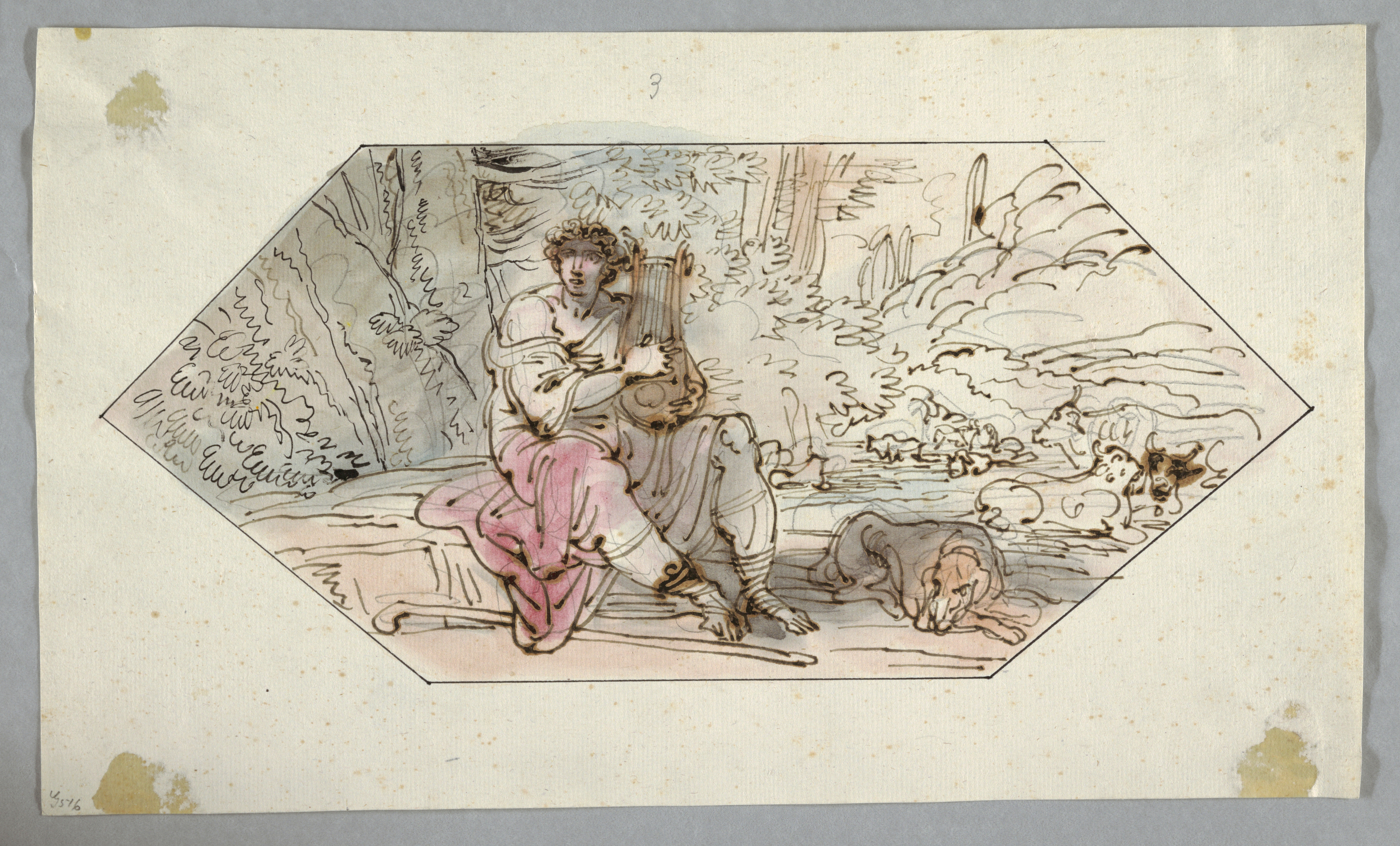 Horizontal Rectangle. Seated, he plays the lyre. The dog and thecastle are at right. Caption, on top written with black chalk: 3 in a hexagon. For the Teatro Della Concordia, Jesi says Cavina, Vol II, p. 813, AI, 278.